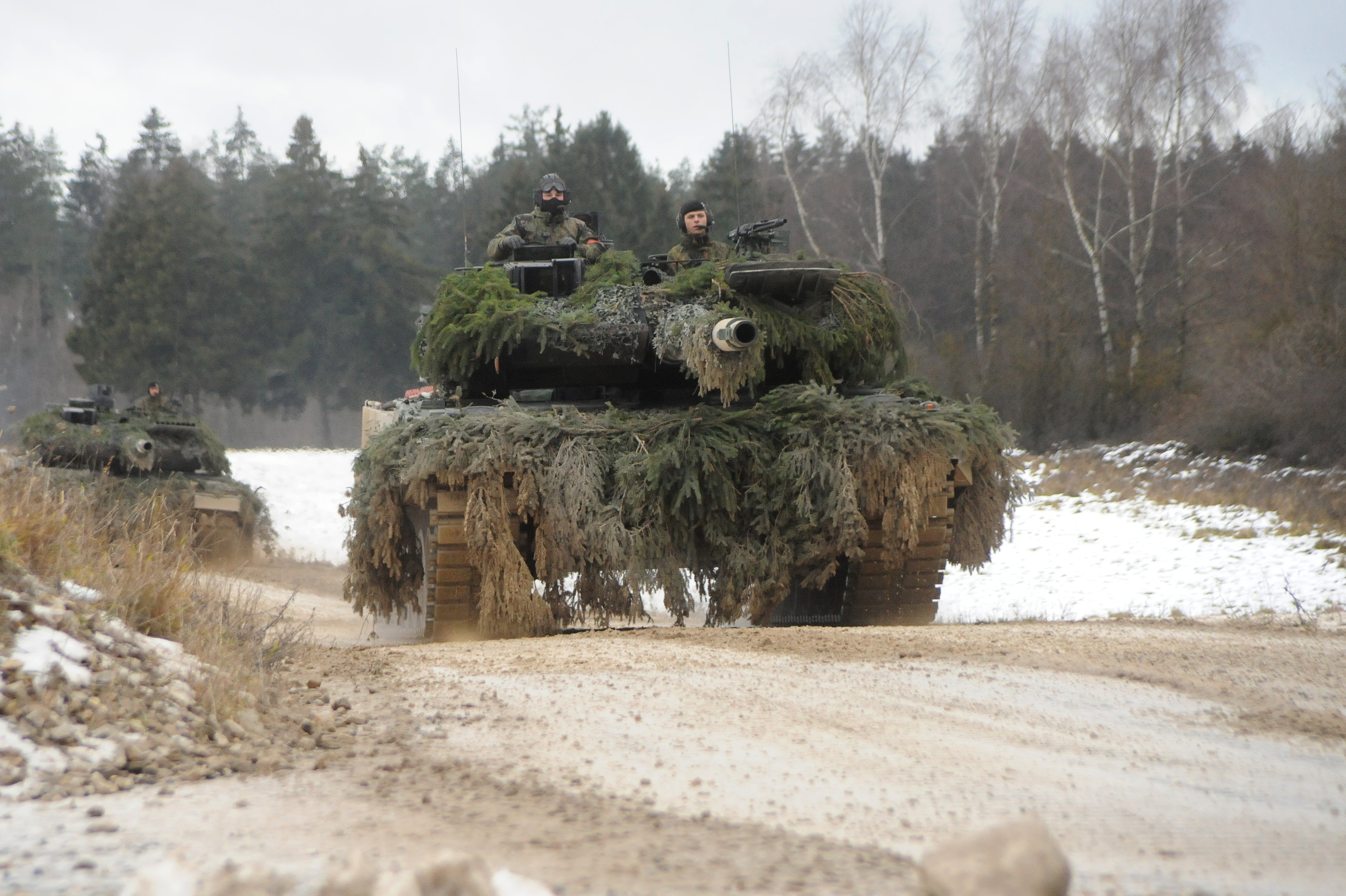 German Bundeswehr soldiers drive Leopard 2 tanks on the Grafenwoehr Training Area tank trails during Operation Iron Panzer Dec. 8, 2011. Iron Panzer is a combined live-fire exercise between the U.S. Army’s 3rd Squadron, 2nd Cavalry Regiment, and the German Bundeswehr’s 4th Company, 104th Panzer Battalion. This is the first combined live-fire exercise that will incorporate both the German Leopard 2 tank and the American Stryker Mobile Gun System.